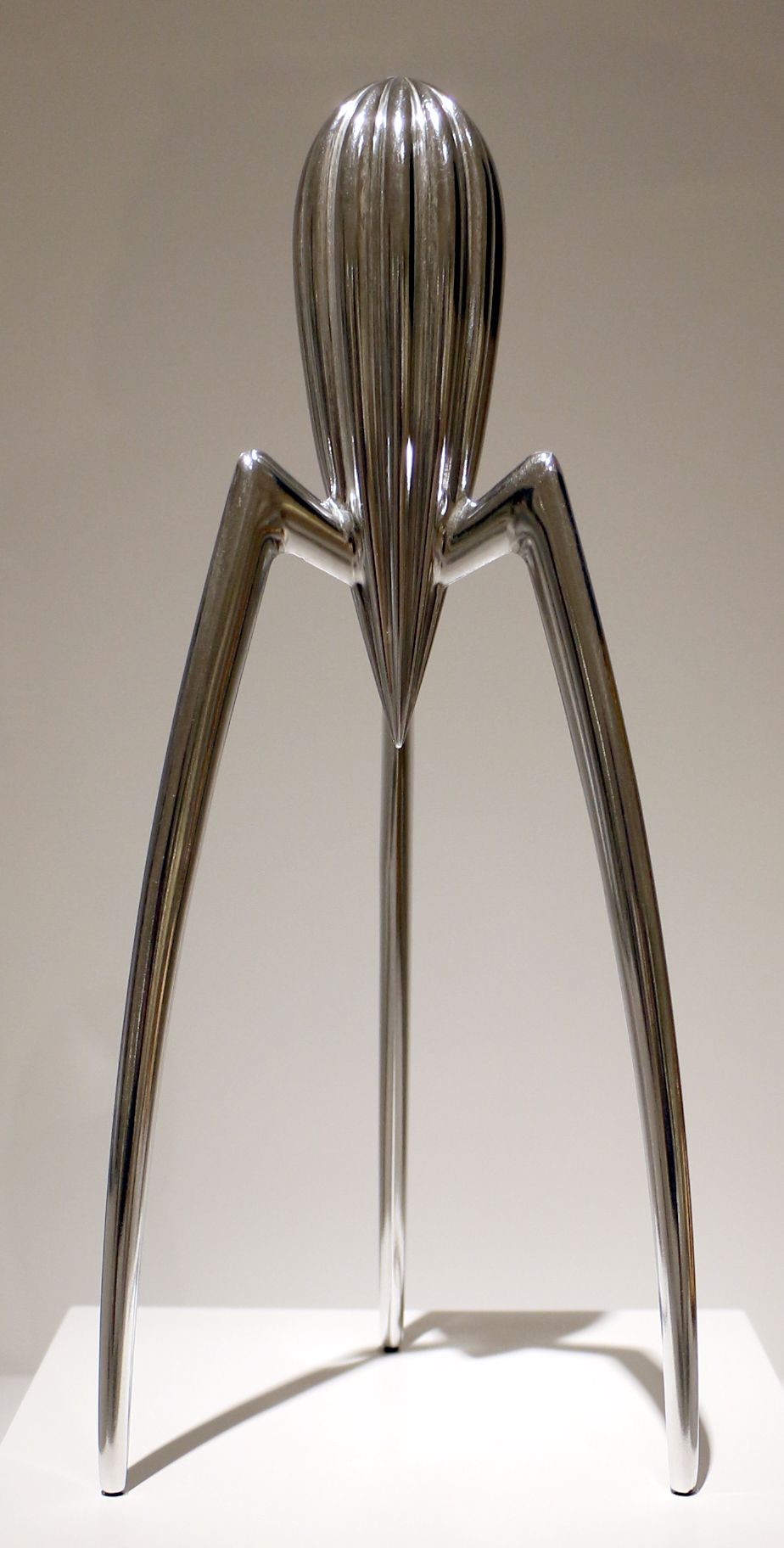 Metalware in the Indianapolis Museum of Art